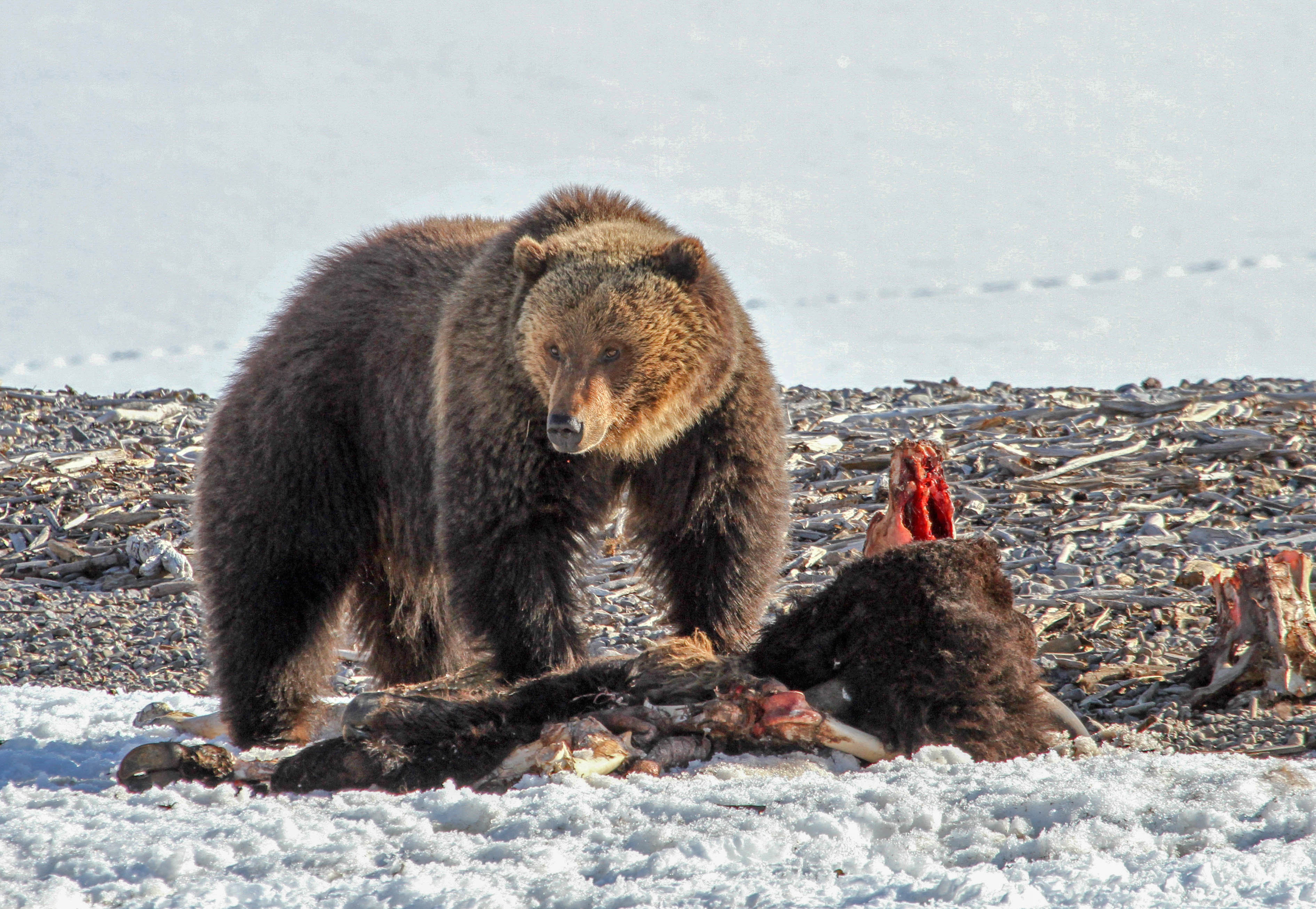 A grizzly bear is on top of a bison carcass with snow covered Yellowstone Lake in the background. Grizzly bear on bison carcass near Yellowstone Lake; Jim Peaco; April, 2013; Catalog #19070d; Original #IMG9750 Keywords: bison; bison bison; mammals; yellowstone national park; wildlife; 19070d